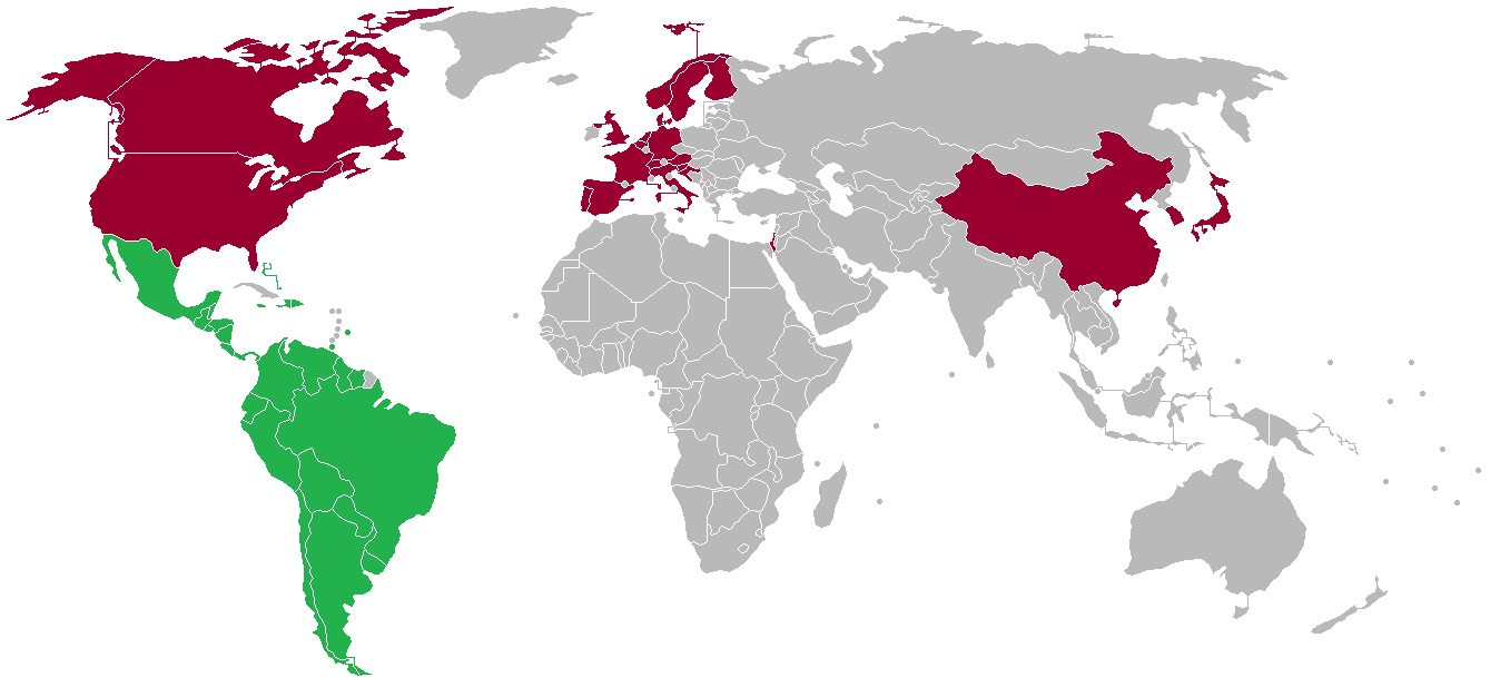 map of Inter-American Development Bank members (borrowing members in green, non-borrowing members in red; based on Image:No colonies blank world map.png